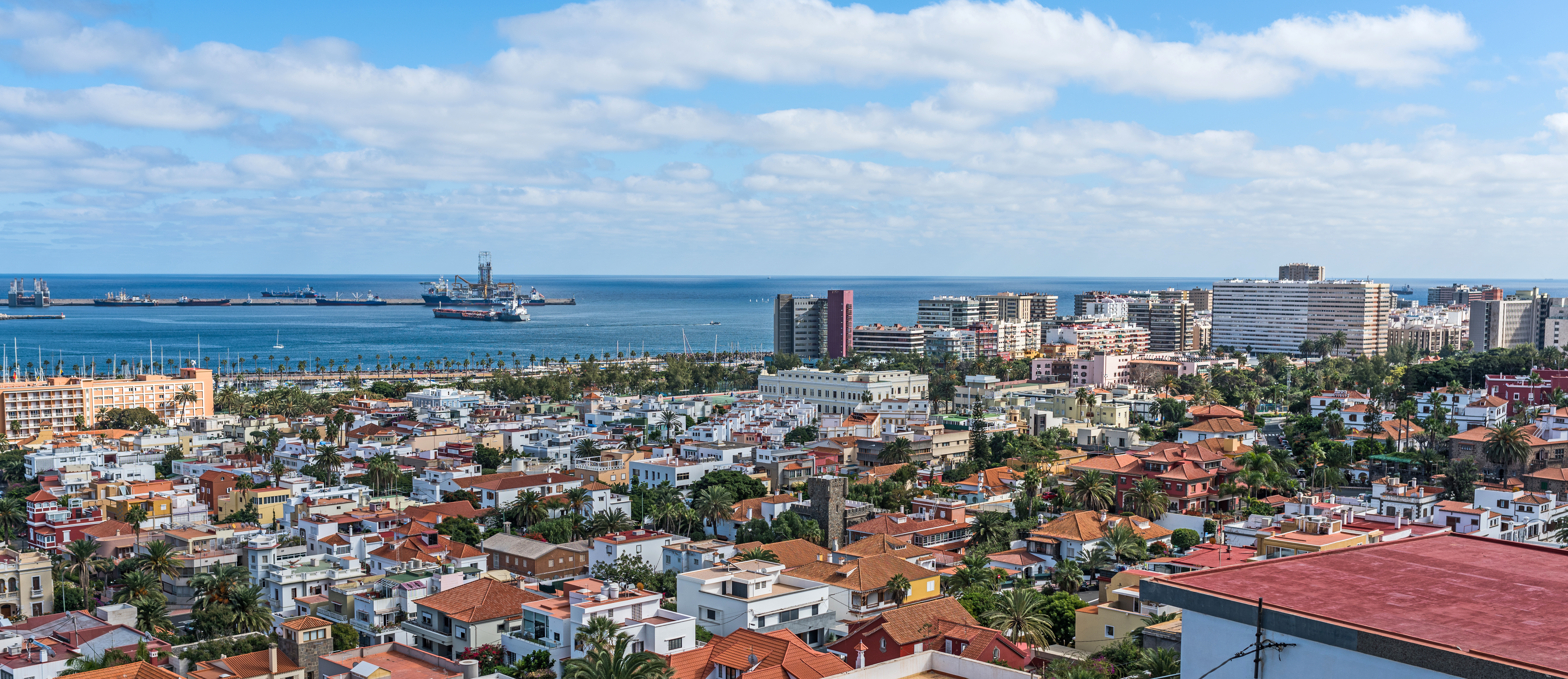 Las Palmas Gran Canaria January 2016